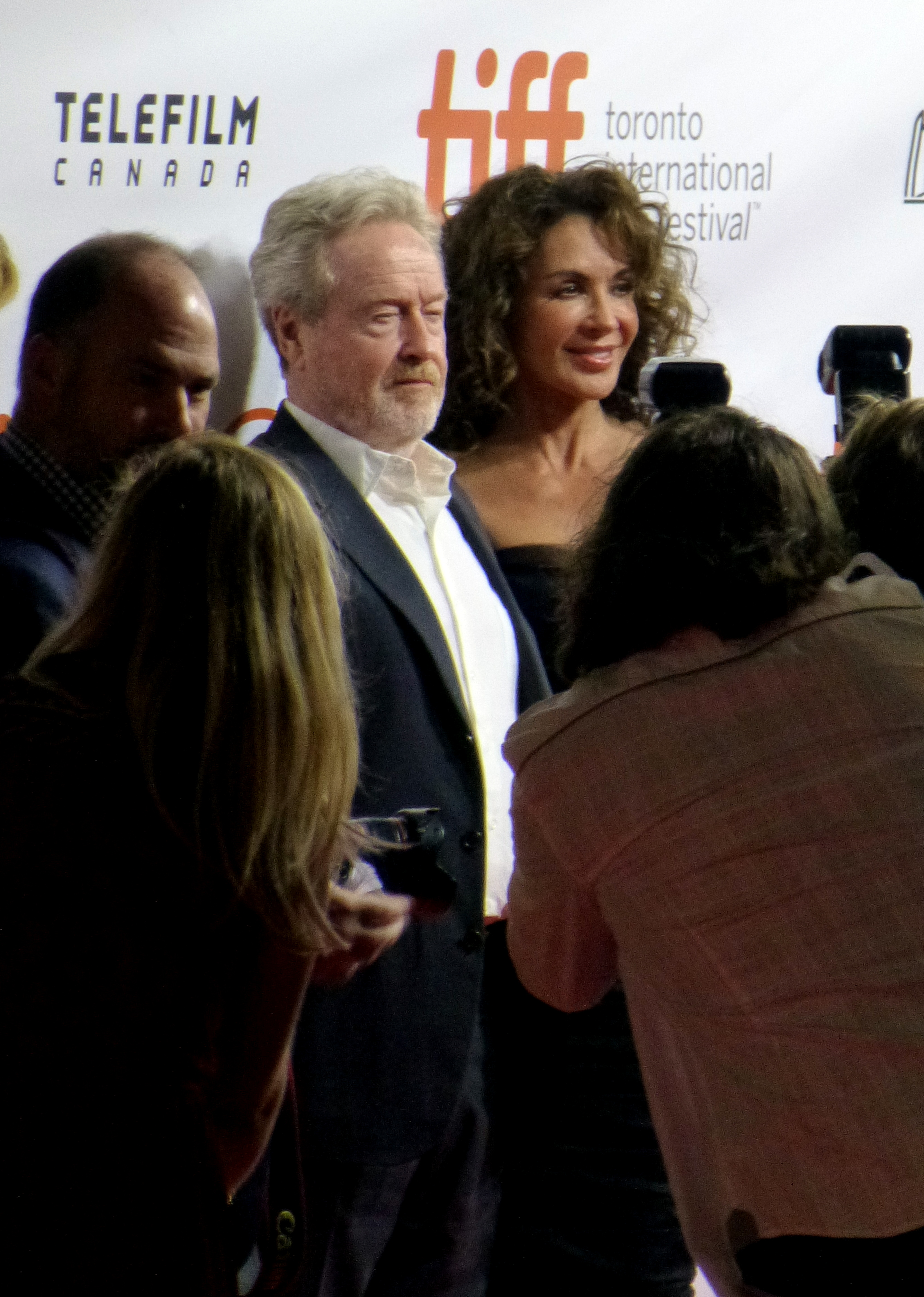 Director Ridley Scott and his wife Giannina Facio at the premiere of The Martian, 2015 Toronto Film Festival